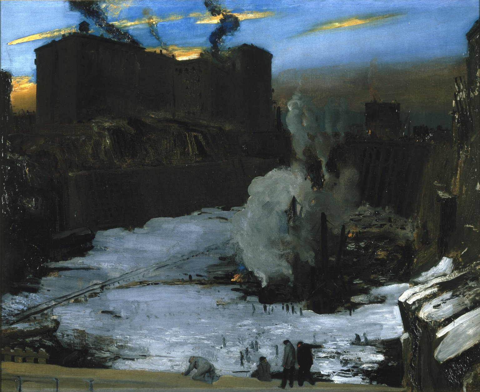 Depicted place: Pennsylvania Station (New York City)